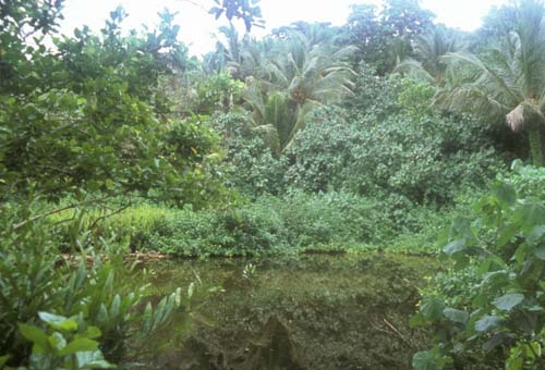 A swamp on Pulo Anna Island, Southwest Islands of Palau.